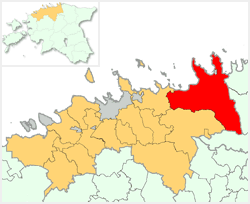 Location map of Kuusalu Commune, Estonia. This image was created by Senzeichi.